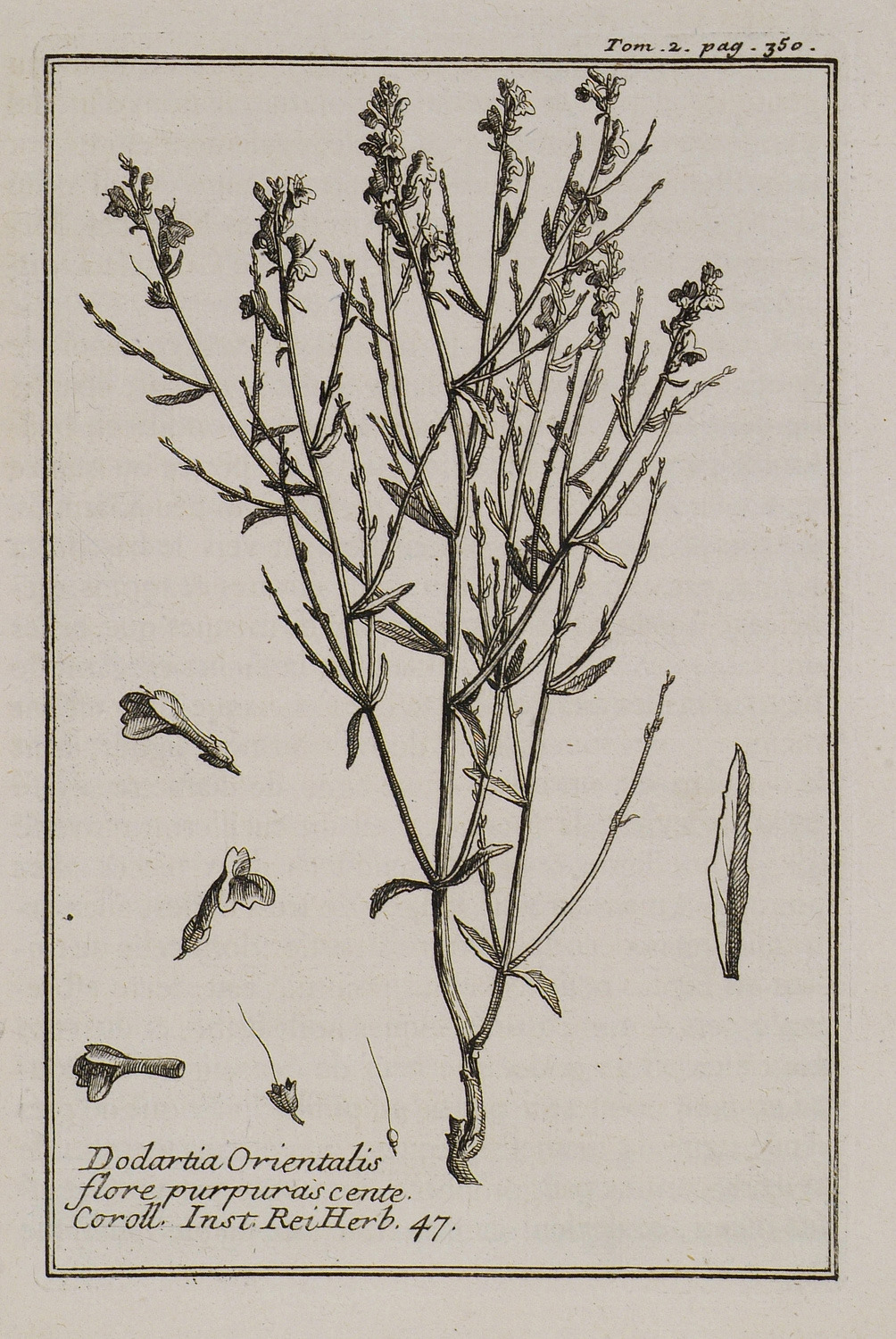 Joseph Pitton de Tournefort. Relation d’un Voyage du Levant, fait par ordre du Roy. Contenant l’histoire ancienne & moderne de plusieurs Isles de l’Archipel, de Constantinople, vol. II, Paris, Imprimerie Royale, 1717. p. 360